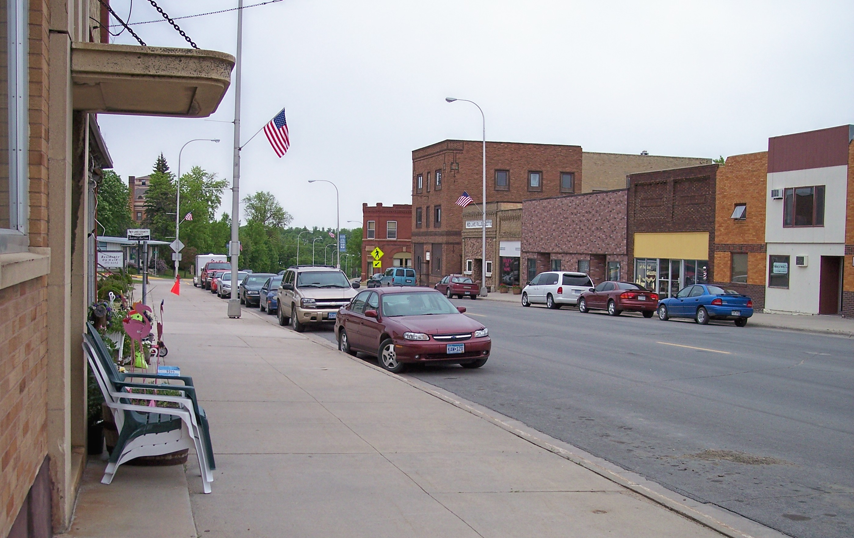 Main Avenue (Minnesota State Highway 32) in Red Lake Falls, Minnesota